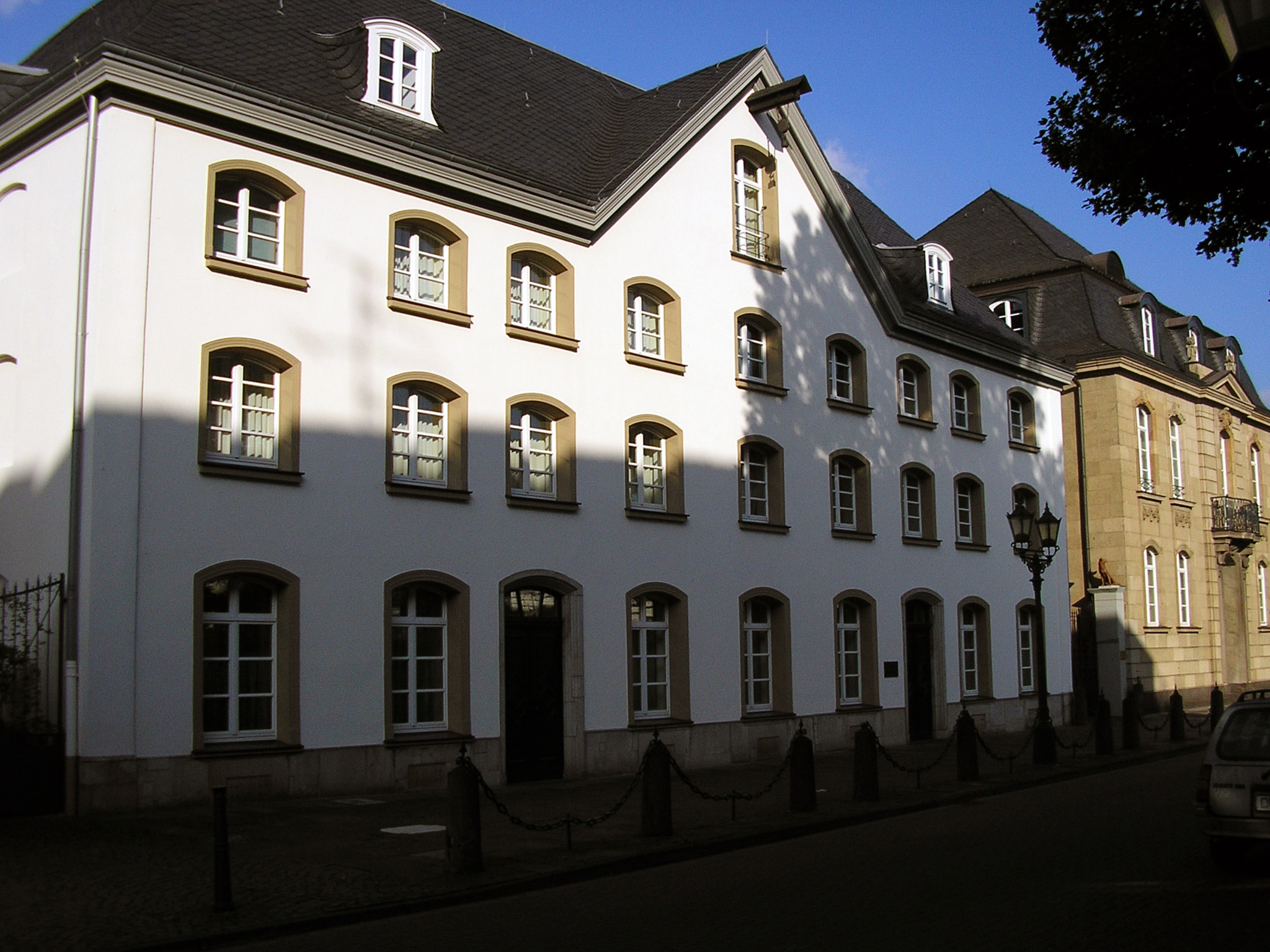 First shop and dwelling building of Franz Haniel